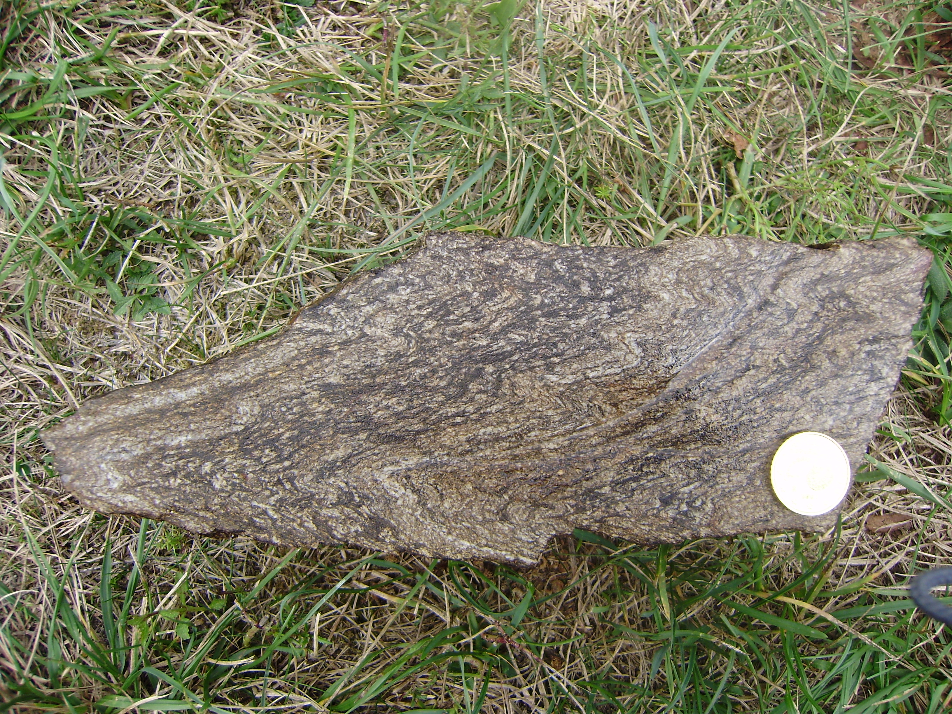 Paragneiss from the Arvernian domain in the northwestern Massif Central, France, near Nontron. The rock has been isoclinally folded and then was overprinted by parasitic folds.